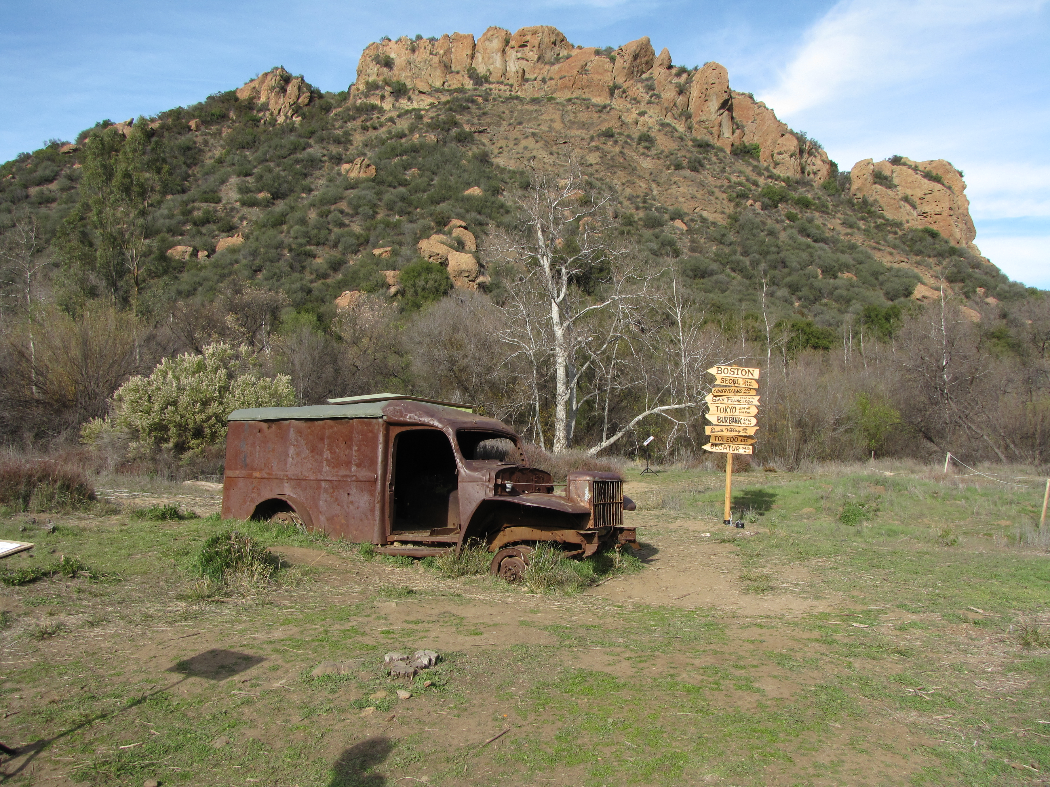 M*A*S*H site in Malibu Creek State Park. Hulk of a Dodge WC54 ambulance. Copy of the original M*A*S*H signpost was installed on the site in 2008.